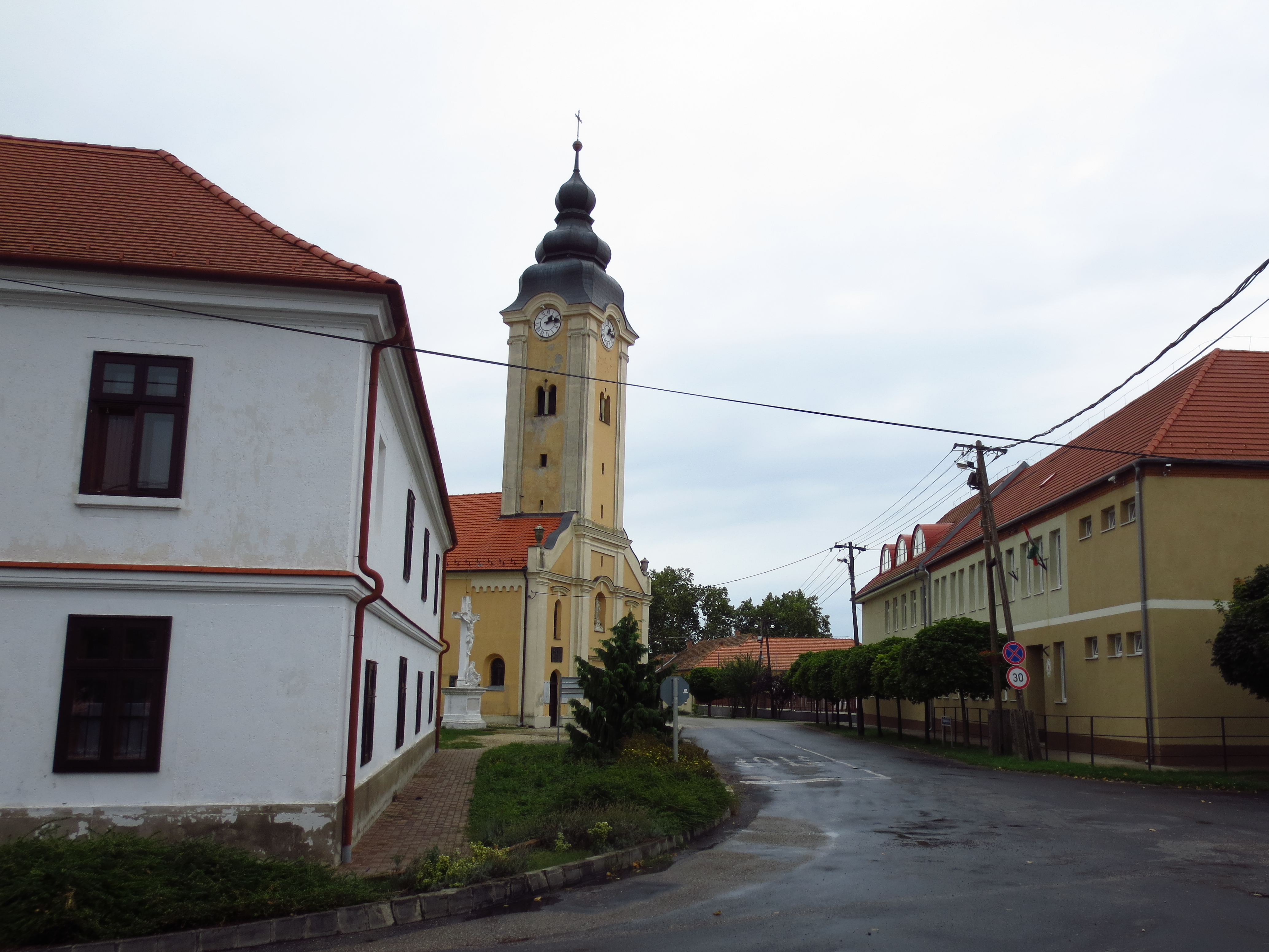 View of Mosonszolnok with church in Szabadság út